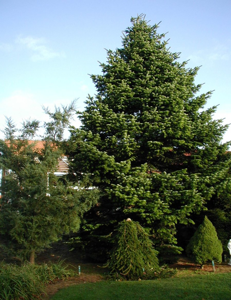 Abies nordmanniana: Habit (young tree).